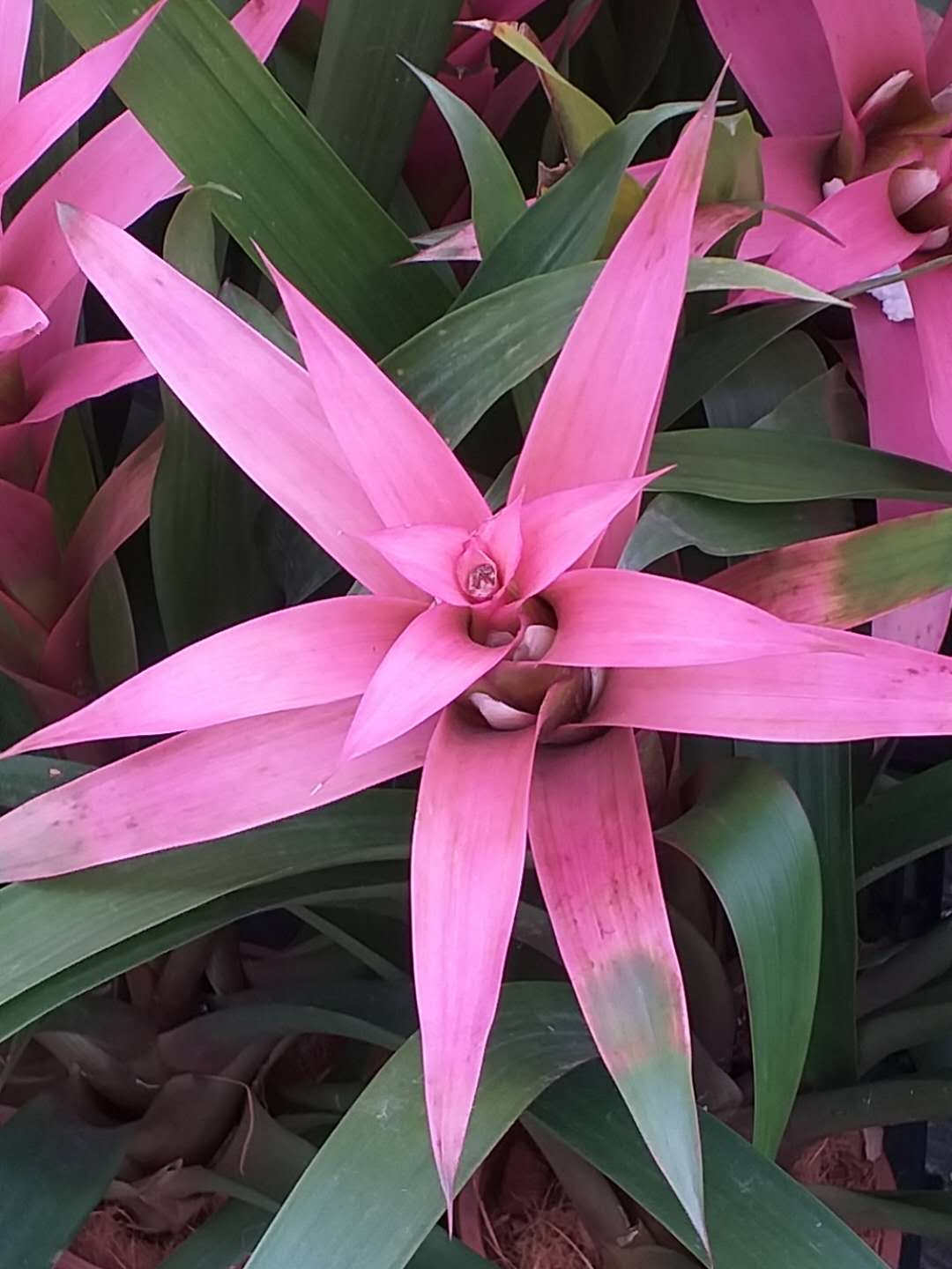 Billbergia pyramidalis. 2018 Taichung World Flora Exposition, Taiwan.